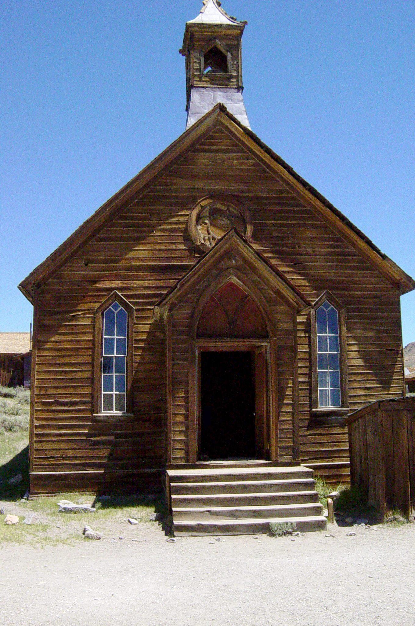 Photo taken in Bodie, California. See file name.